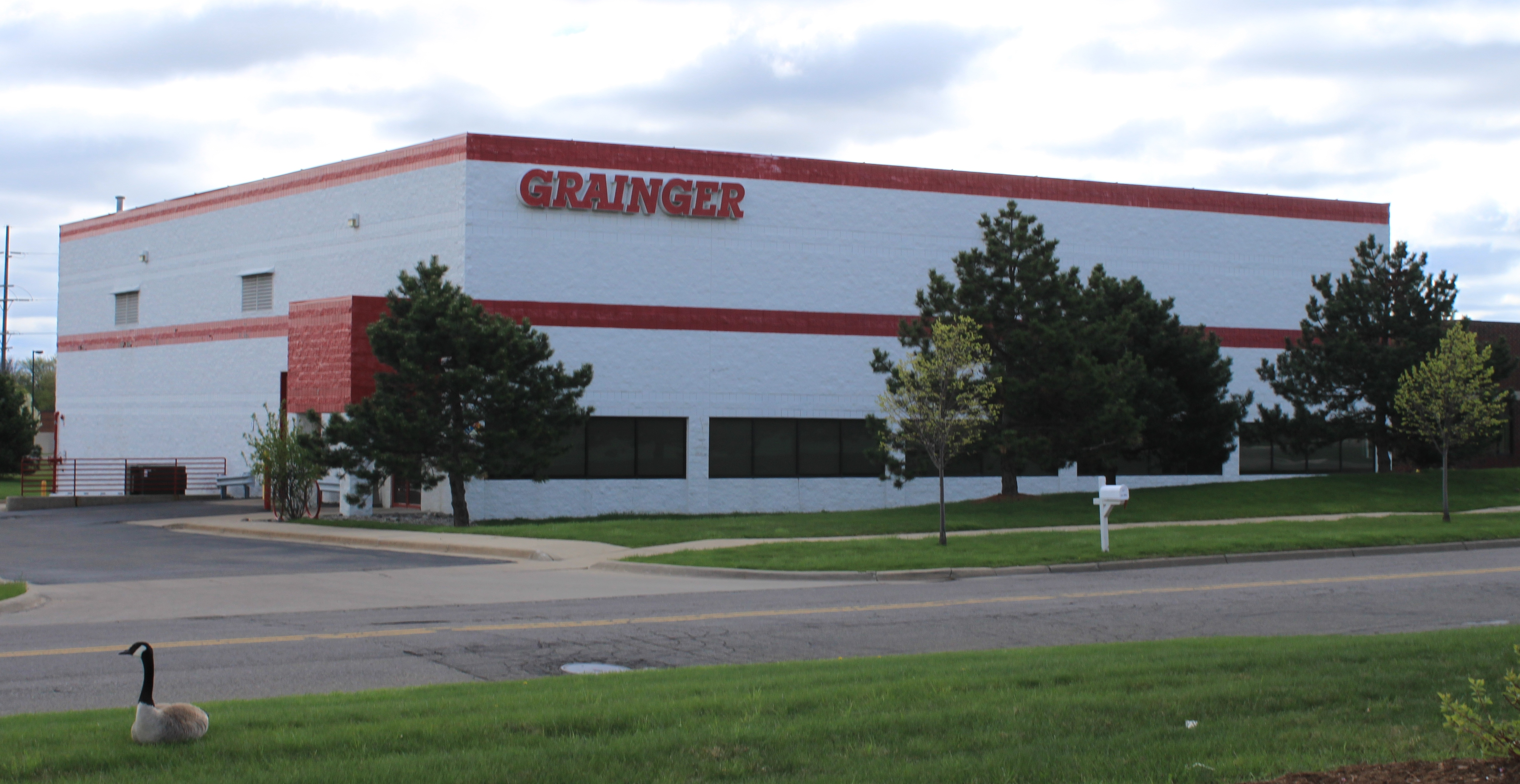 W.W. Grainger branch 2915 Boardwalk Ann Arbor Michigan 48104-6765